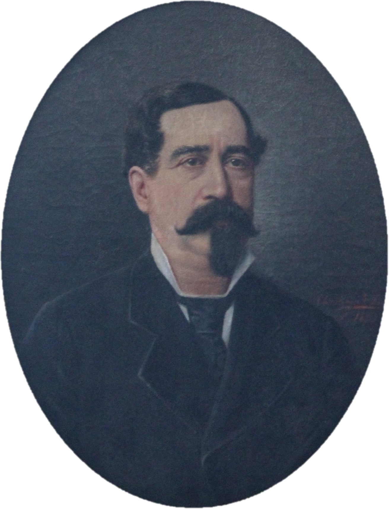 Portrait of D. Joaquim Álvaro Teles de Figueiredo, Viscount of Aguieira (1816-1895), by Christiano Vicente Leal (1841-1911).